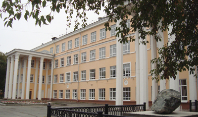 Perm School №9